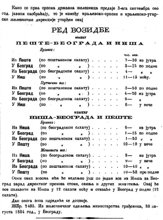 First train schedule of Serbian Railways, published in Srpske novine from September 2/14, 1884 (page 3).